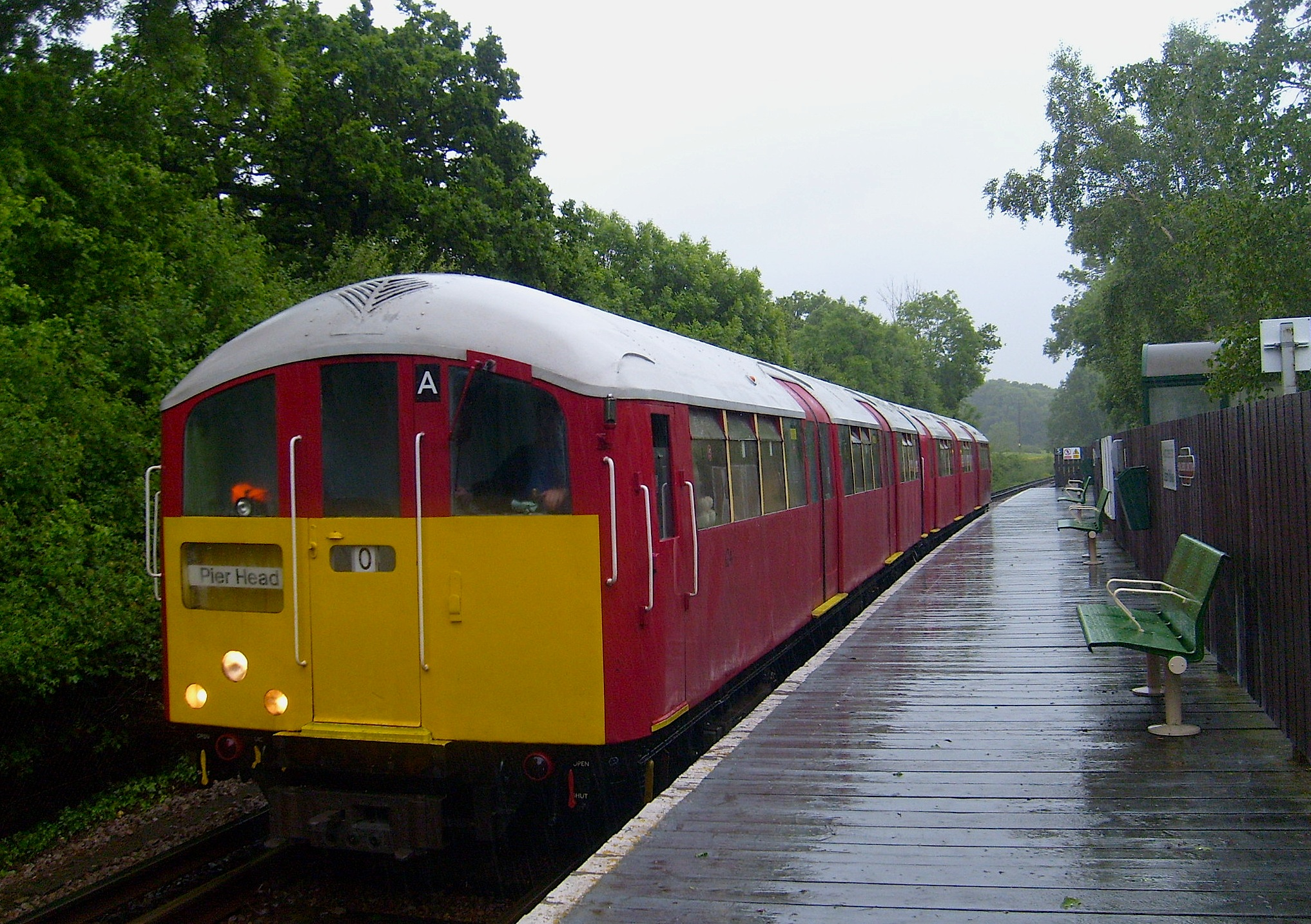 Island Line Class 483 No. 004 in London Underground livery at Smallbrook Junction